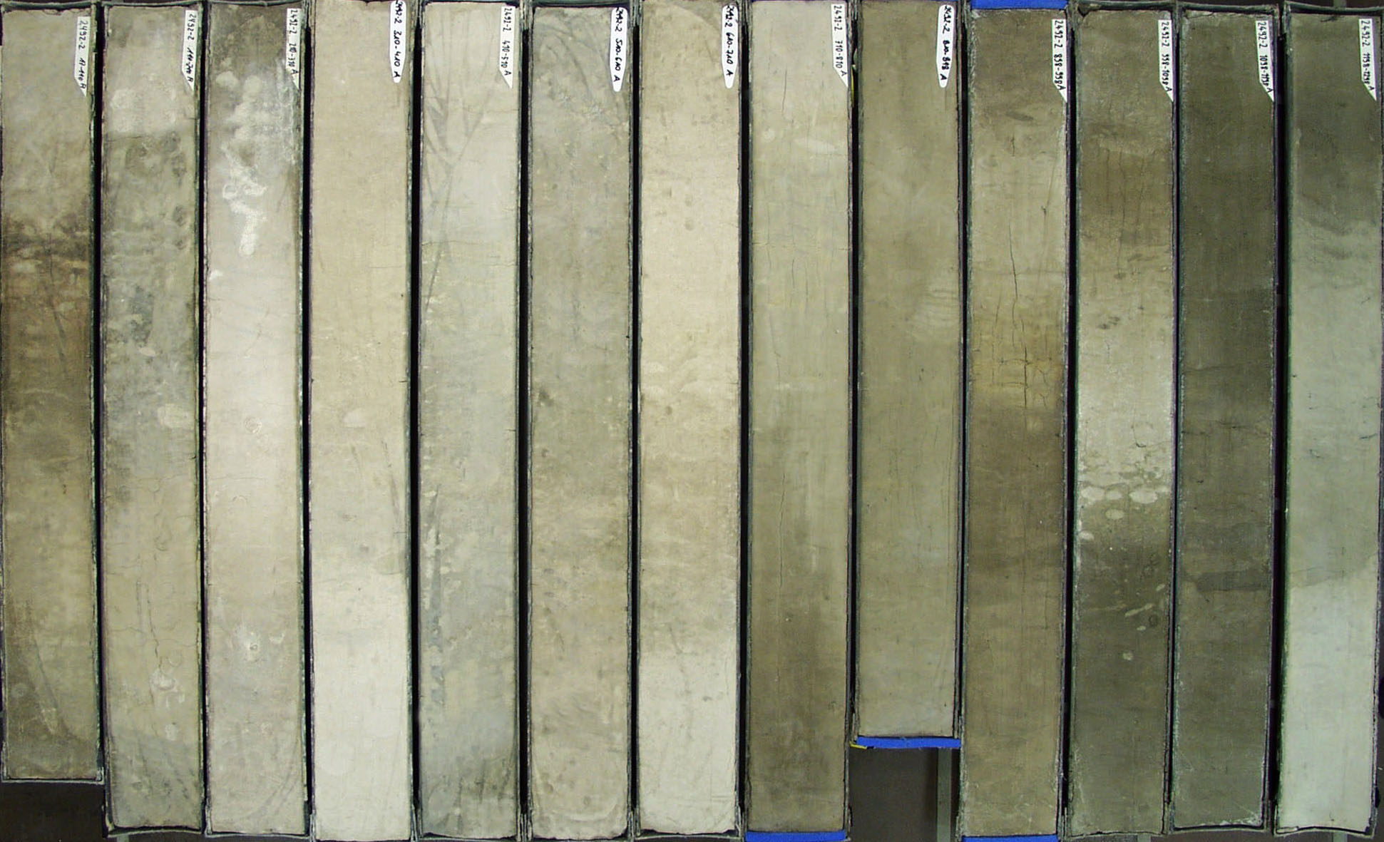 Sediment core from the South Atlantic